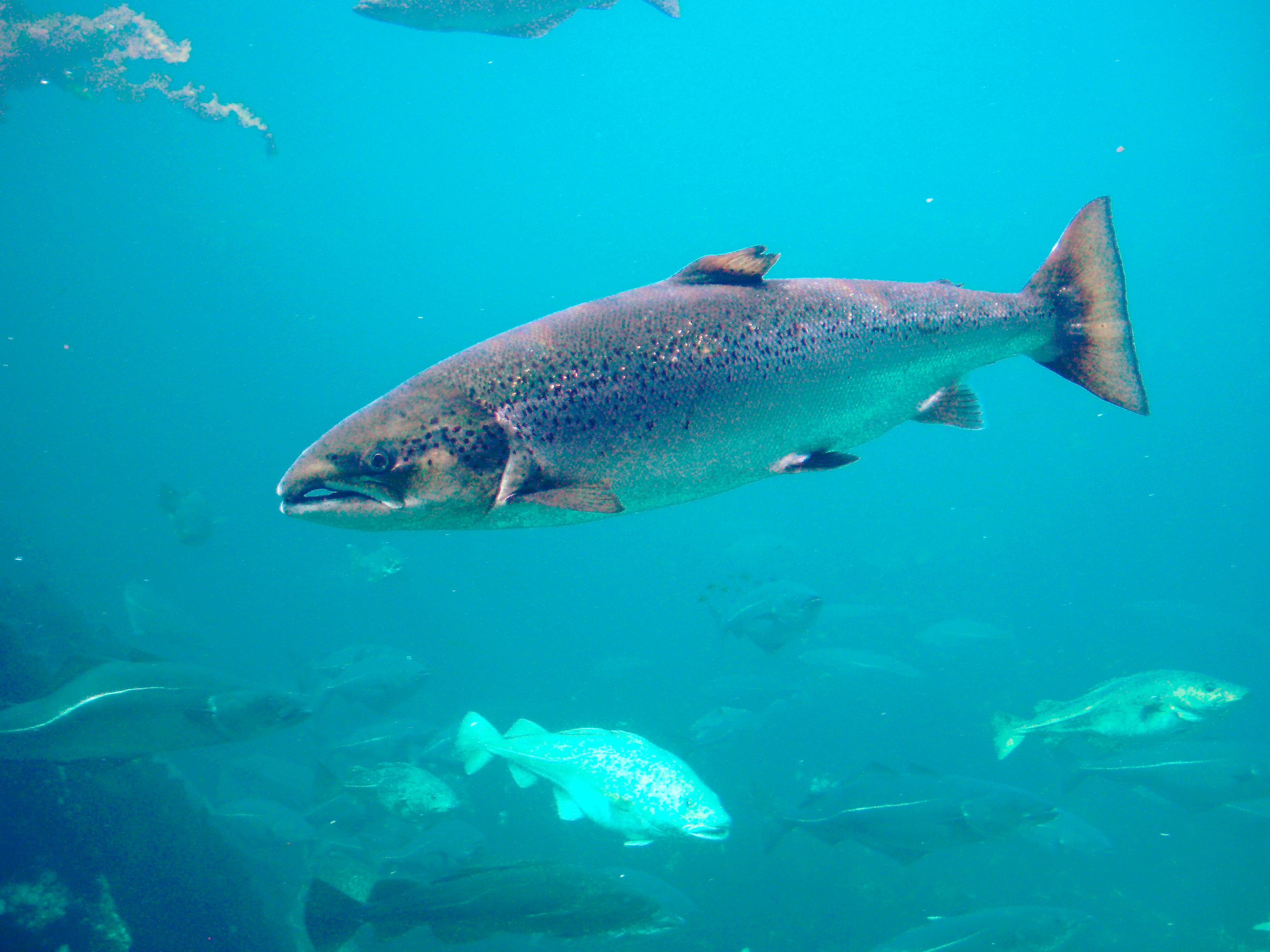 Atlantic Salmon, Salmo salar, Taken thru glas, in Atlanterhavsparken, Ålesund, Norway